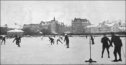 The first bandy match in Sweden. The match was played during the Nordic Games 1901 in Nybroviken.